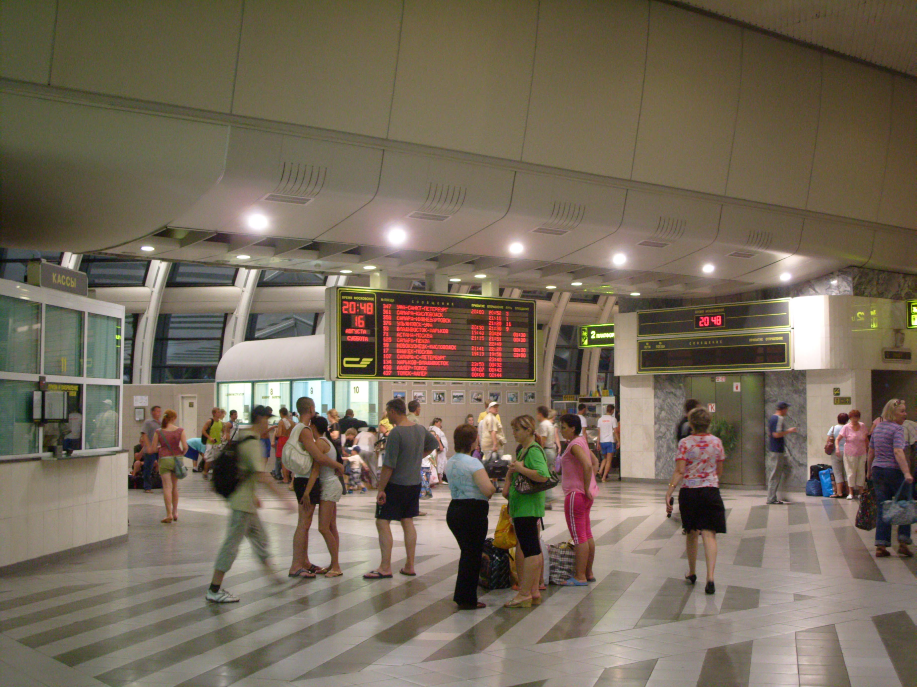 Samara train station